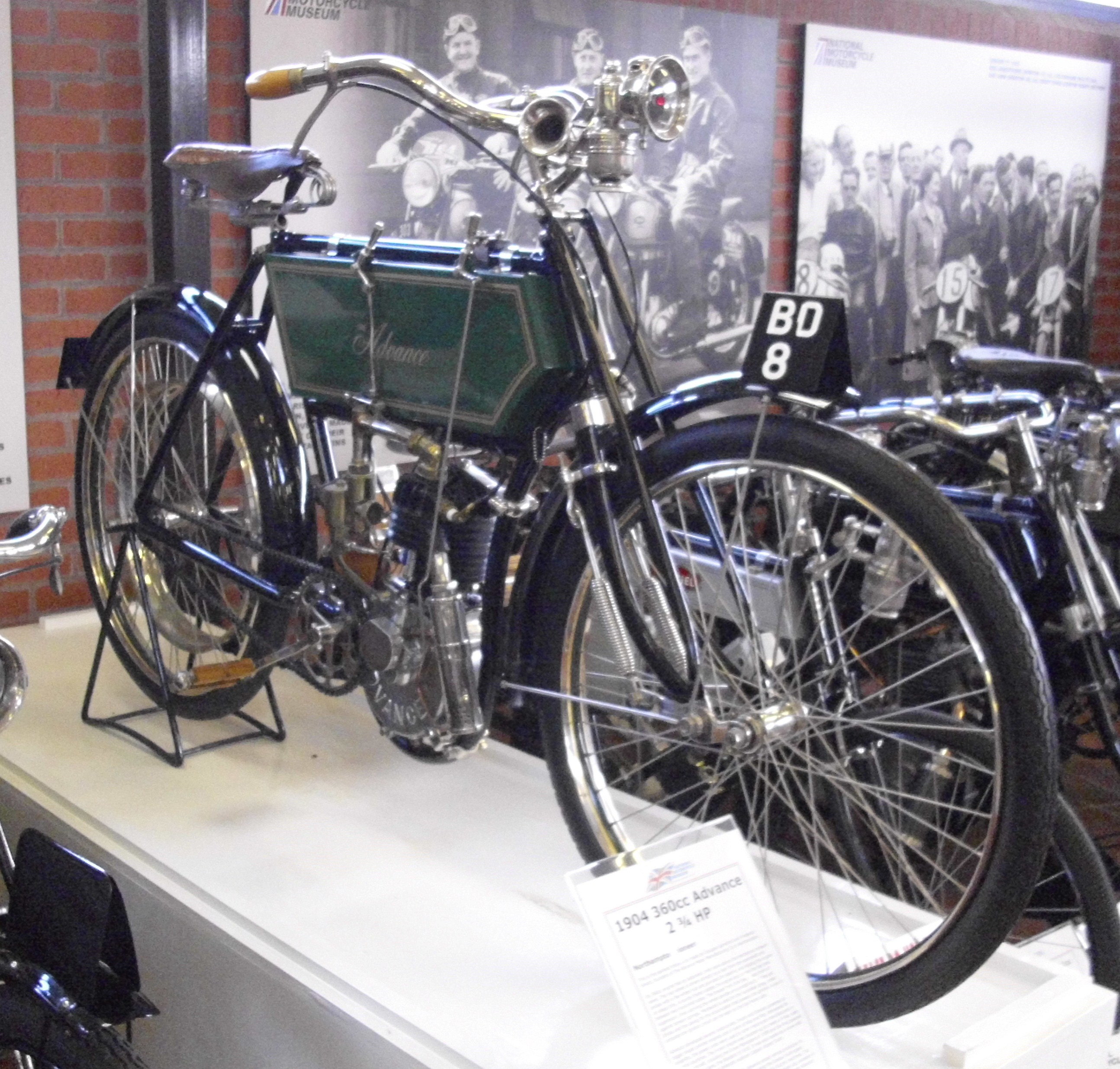 Advance 2.75 HP Motorrad